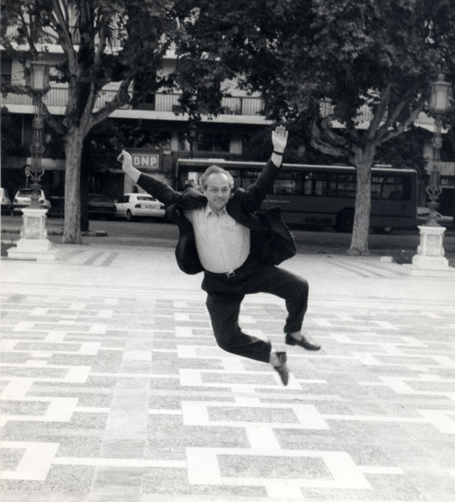 Gianni Pettena